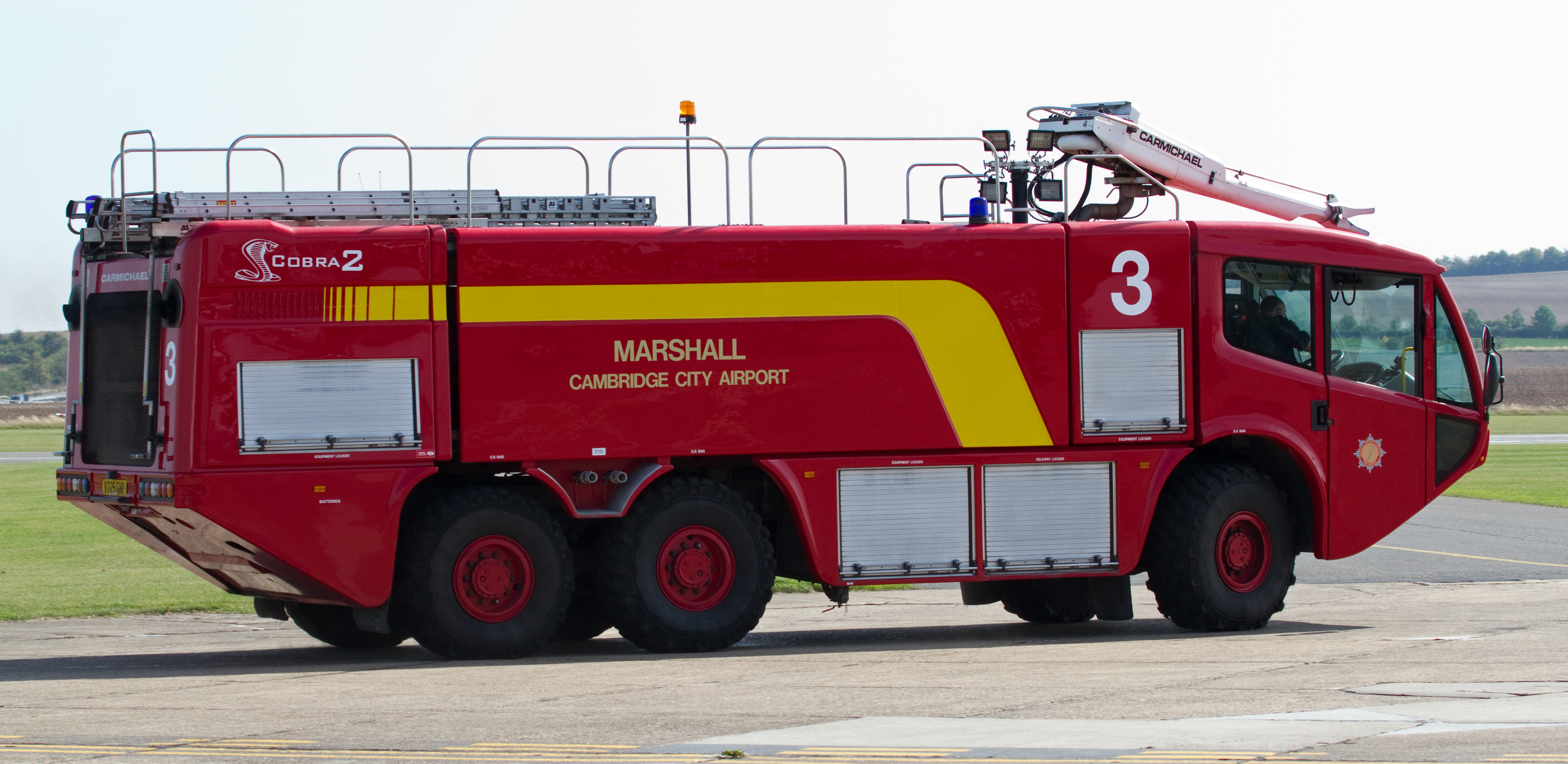 Airport Fire Engine